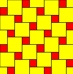 truncated_square_tiling variation